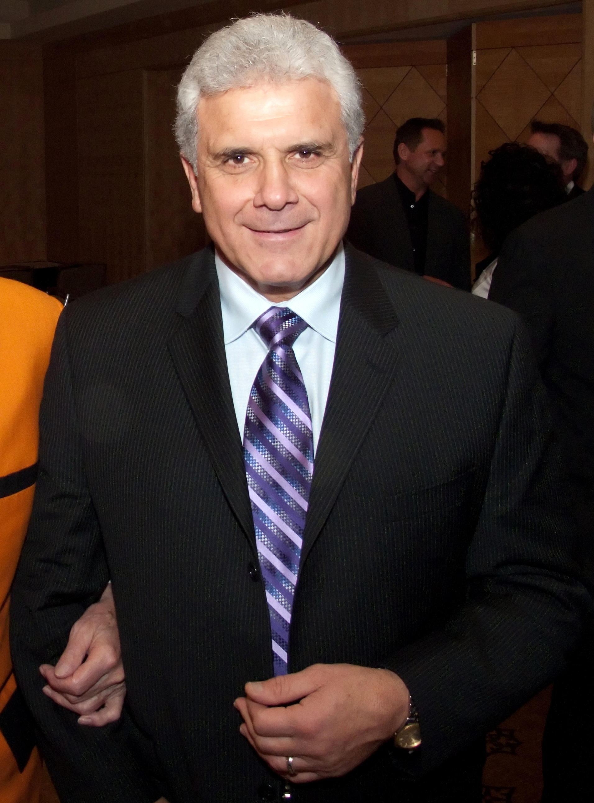 Wally Buono at the March 2009 sixth-annual Orange Helmet Awards Dinner in Vancouver, Canada.